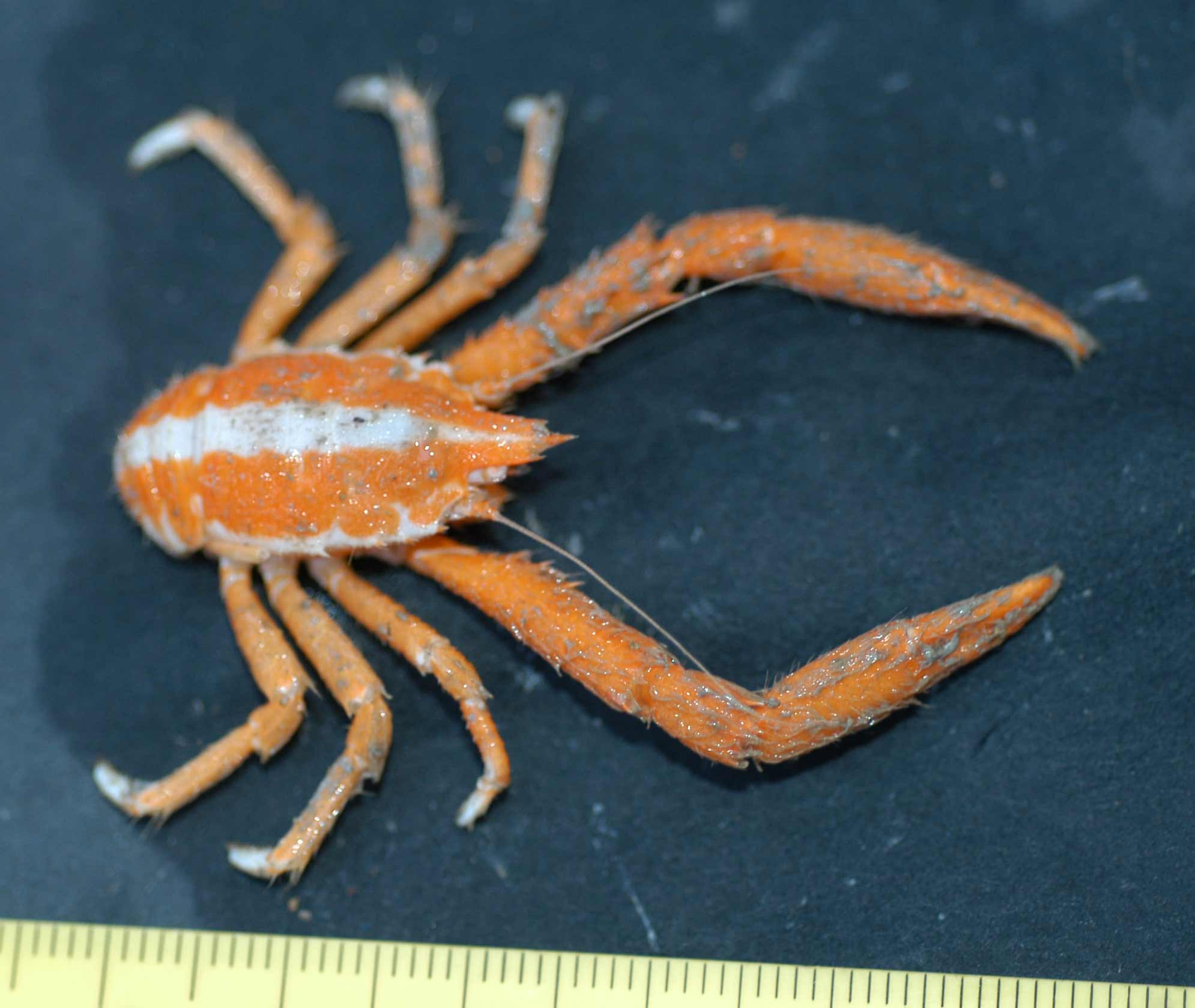 The three-toother squat lobster Munidopsis tridentata, now known as Munidopsis serricornis.